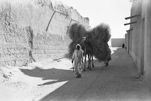 Camel in Kuwait carrying fuel for cooking. Reproduction ID: PM5322-6 Maker: Alan Villiers Villiers collection (Alan Villiers' photographs of his voyages aboard Arabian dhows (1938-39))